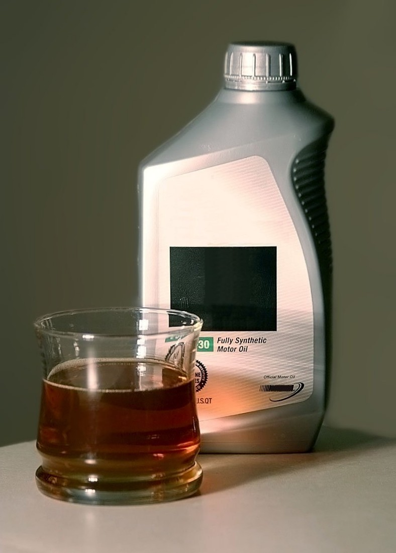 Motor oil, Mobil 1 bottle blocked out